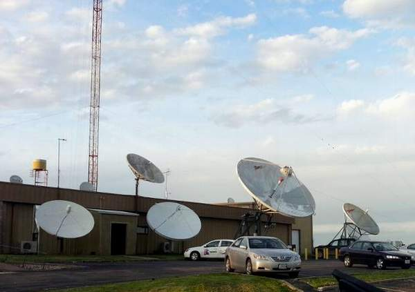 KTVO-TV near Kirksville, Missouri. Pictured is the side entrance to the building along with the large number of satellite dishes used by the station.